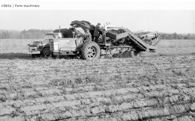 1960's Potato Farming Equipment